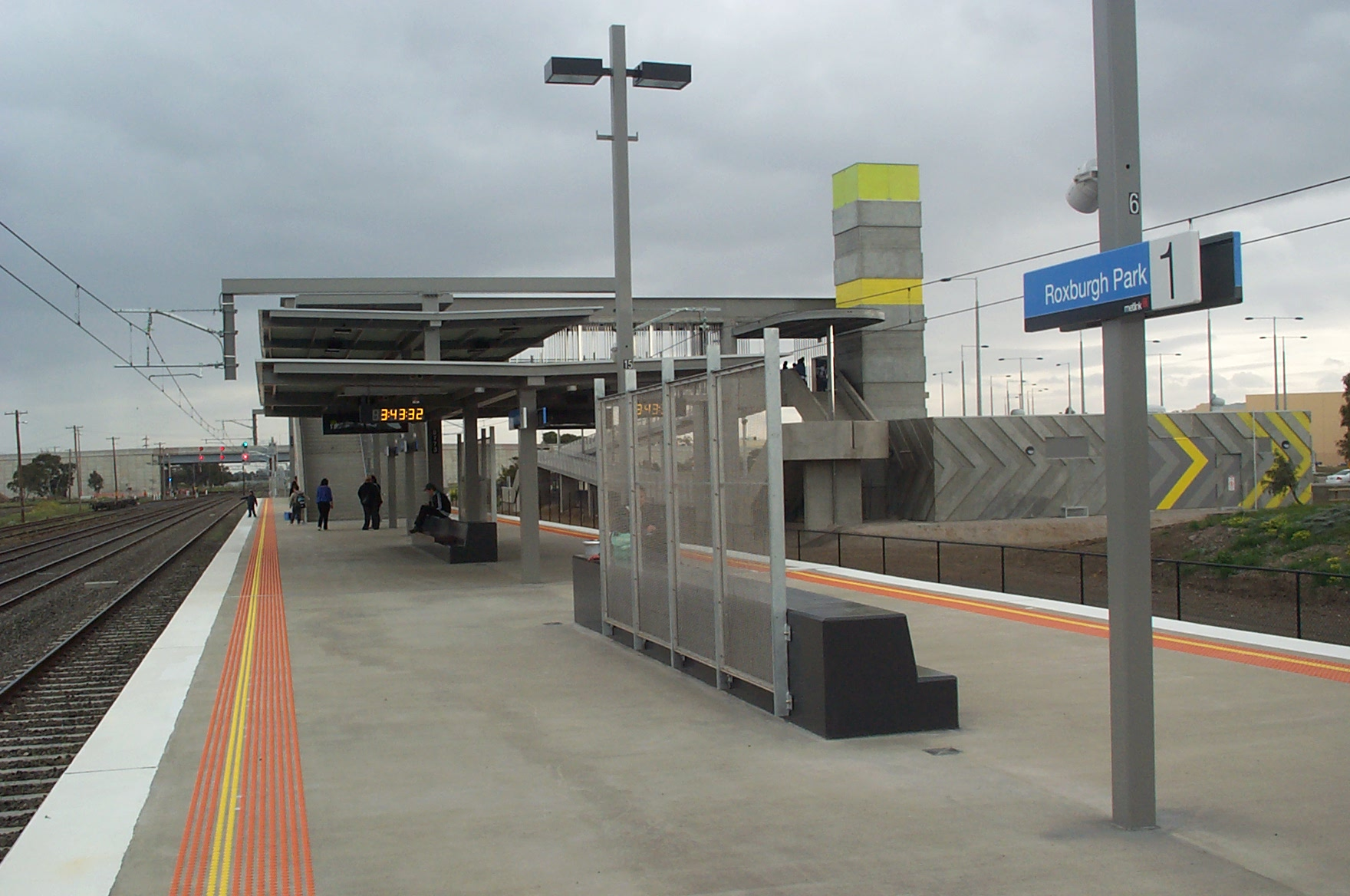 Photograph of Roxburgh Park railway station, Melbourne. View from platform